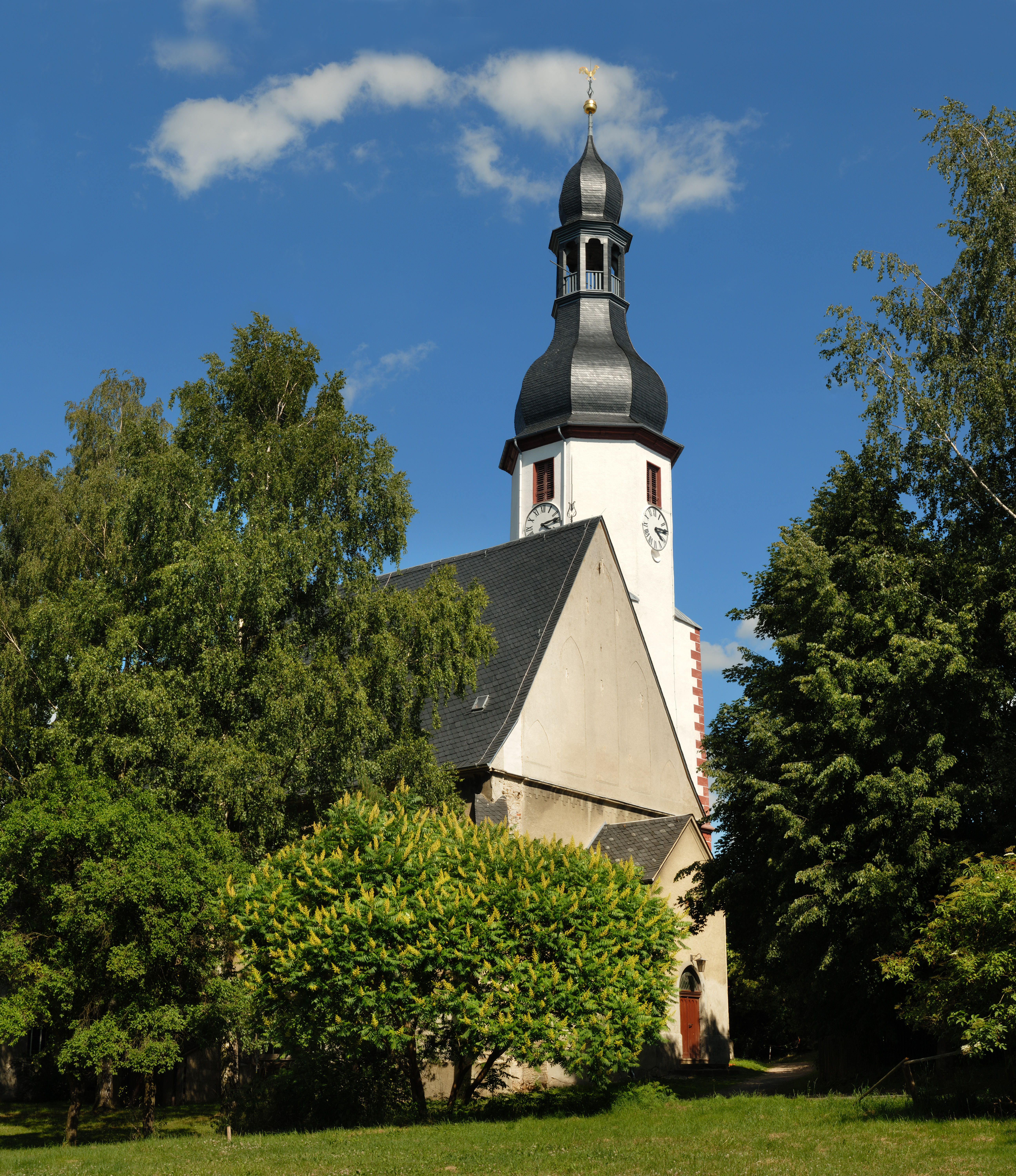 This image shows the Church in Neumark, Saxony, Germany. It is a eight segment panoramic image.